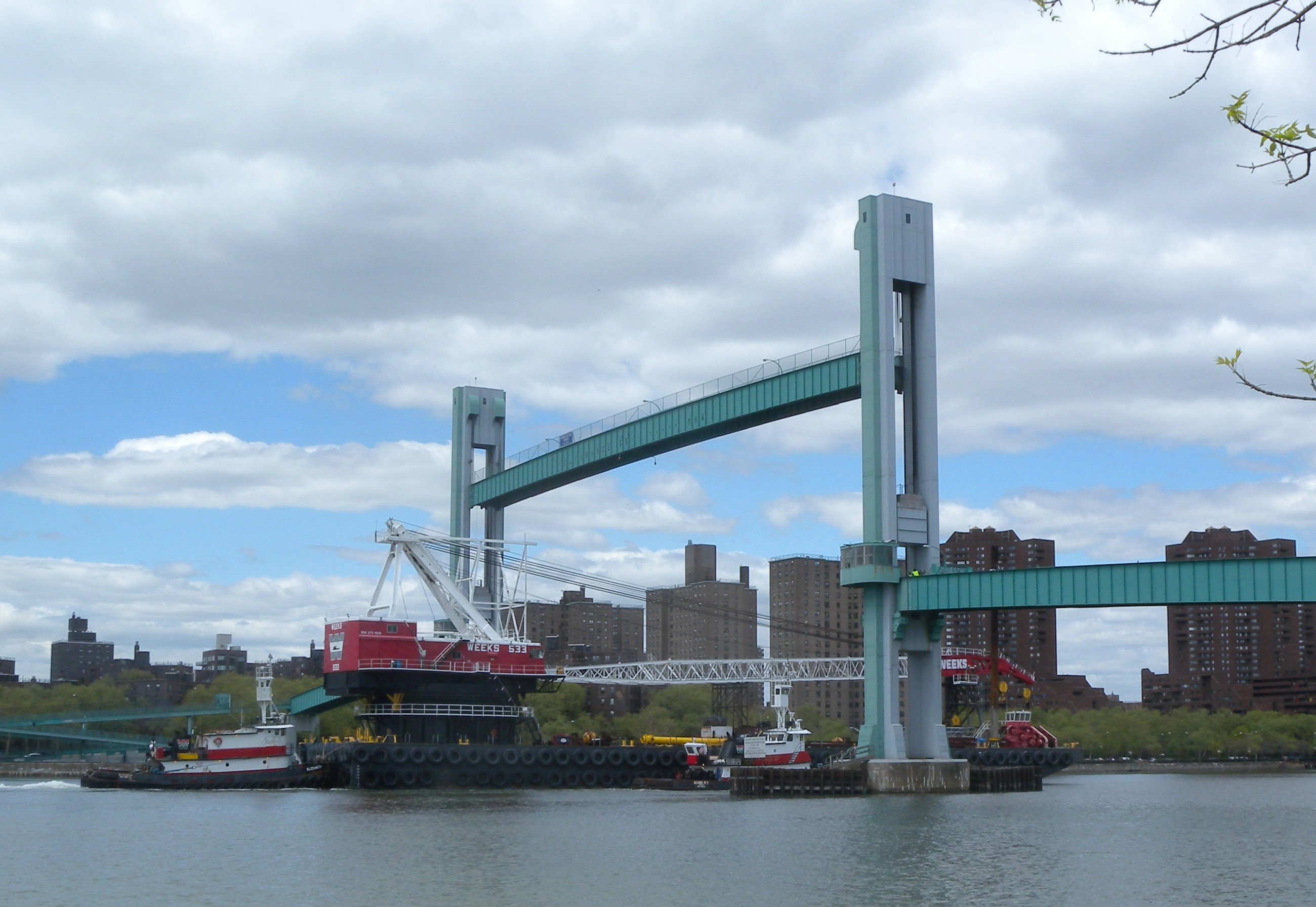 Looking northwest at a barge going under the lifted Wards Island Bridge, to work on the Willis Avenue Bridge, on a mostly cloudy midday.